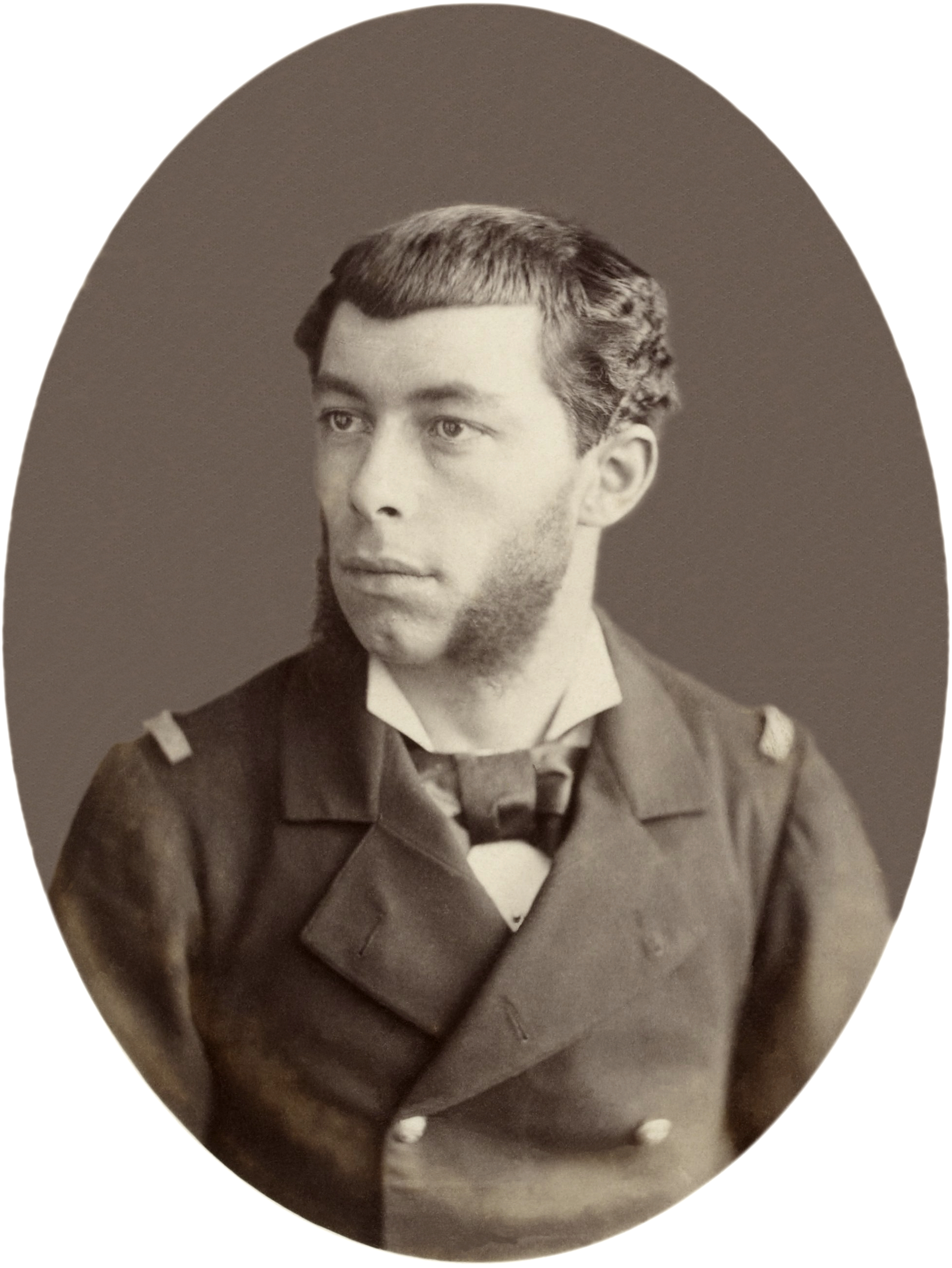 Antoine Mizon, (1853 - 1899), french navy officer, and colonial explorer.